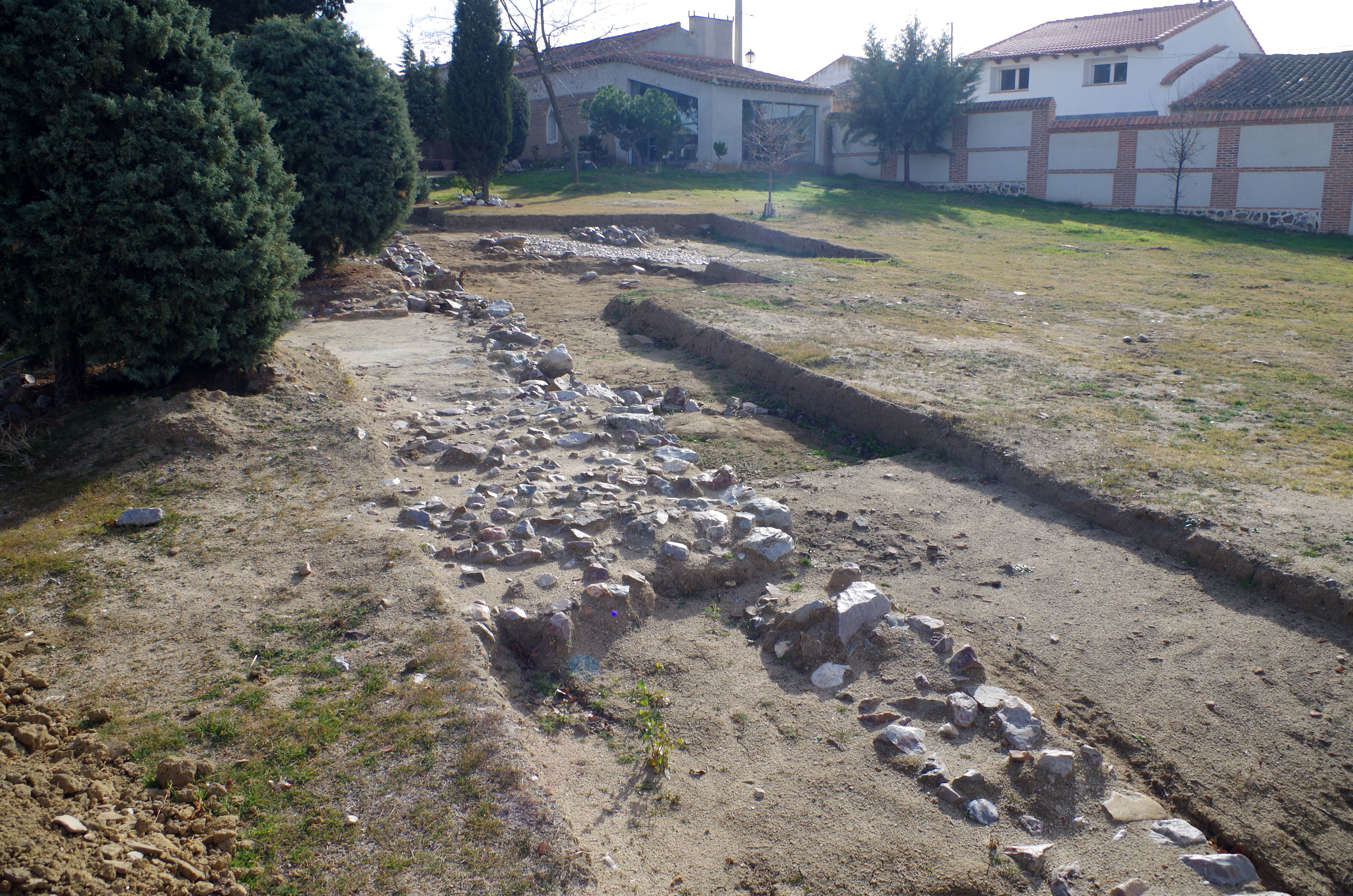 Archaeological excavation in the dovecote of Saint Teresa of Ávila Gotarrendura (Ávila, Spain). The named «dovecote of Saint Teresa of Ávila» is her mother's manor house, where she lived during her childhood.